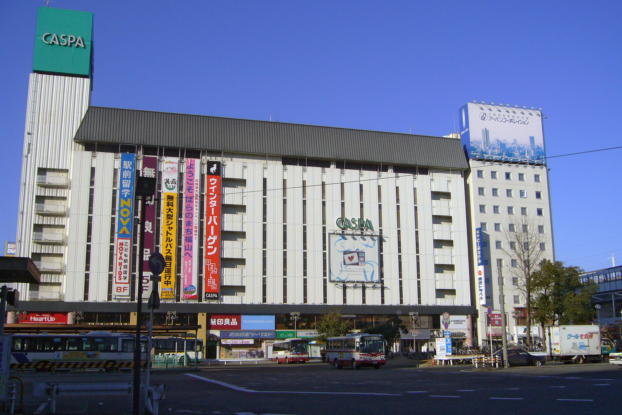 CASPA in front of the Fukuyama station in Fukuyama, Hiroshima, Japan